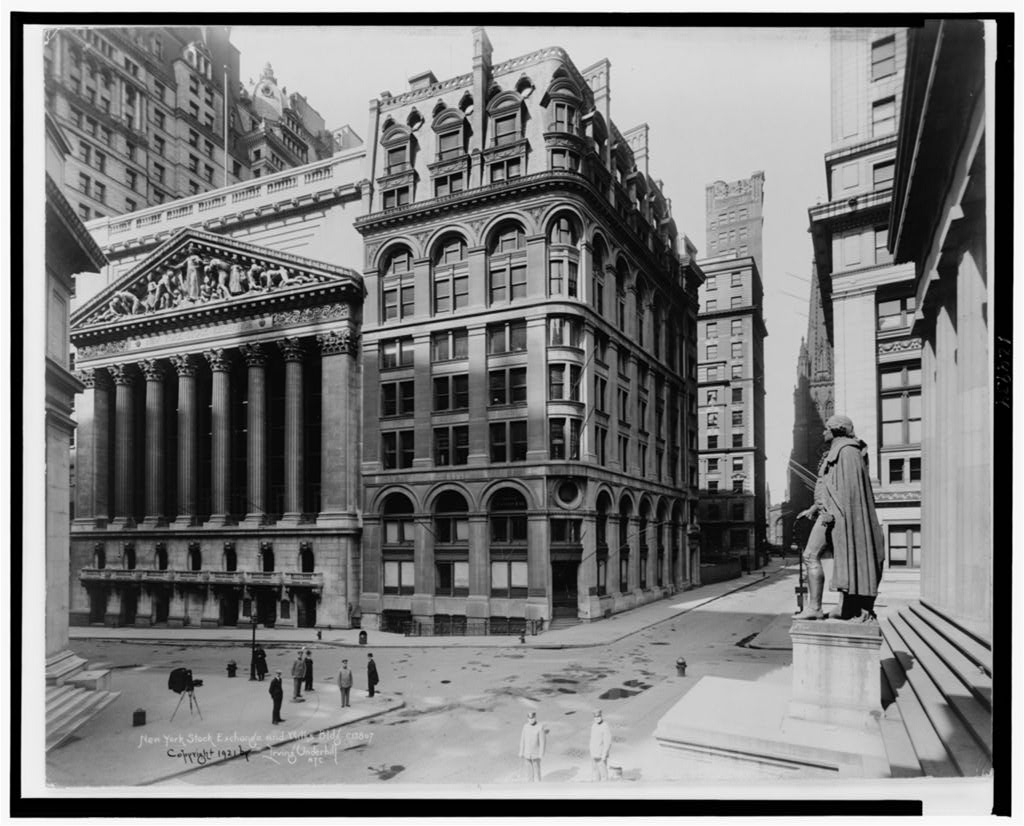 Title: New York Stock Exchange and Wilks Bldg. Abstract/medium: 1 photographic print.